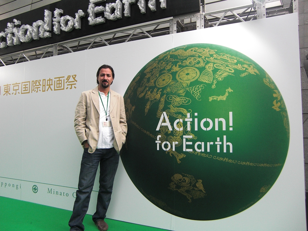 Shahram alidi